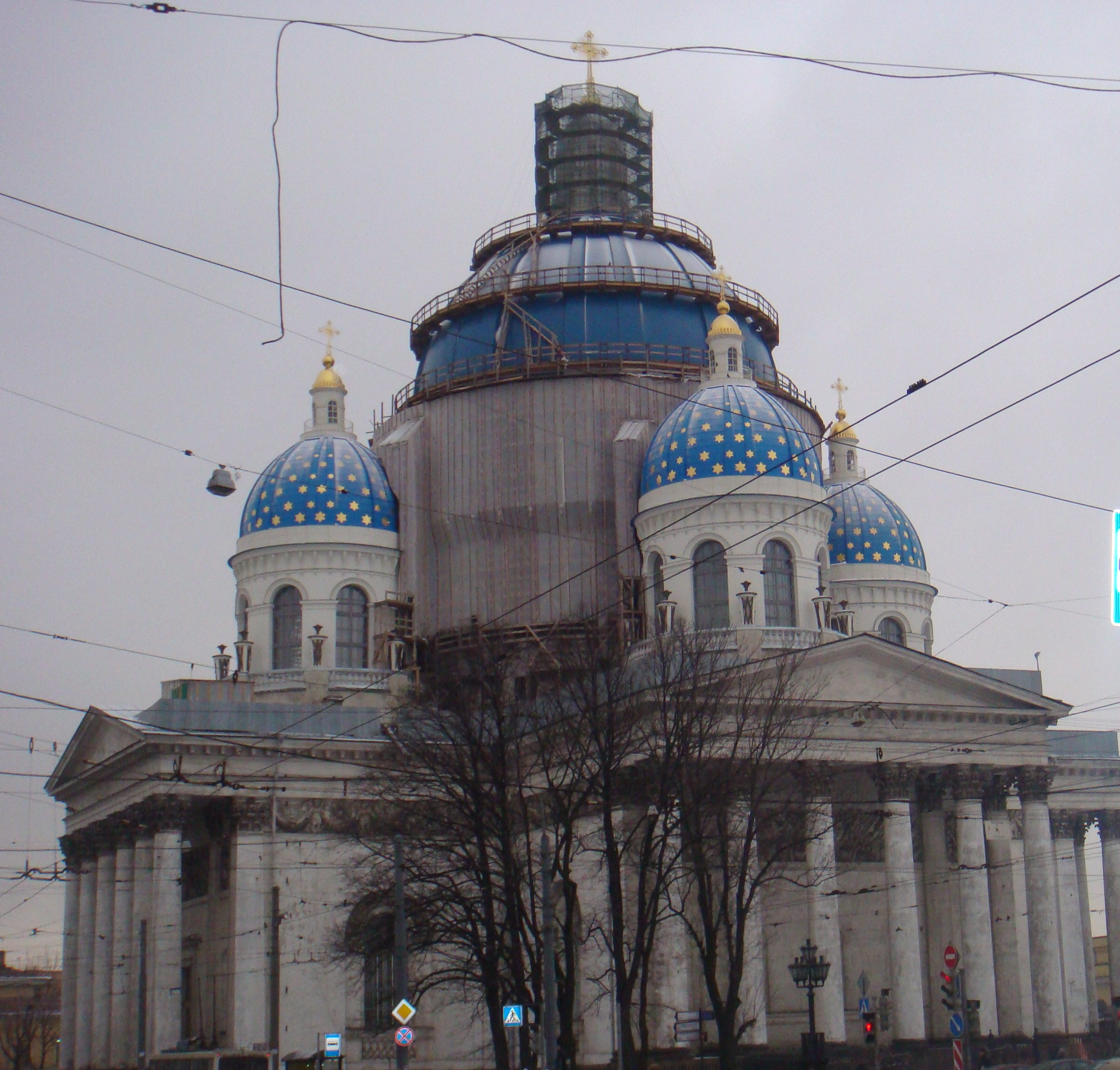 Trinity Izmaylovo Cathedral in St. Petersburg during restoration. March 2009.